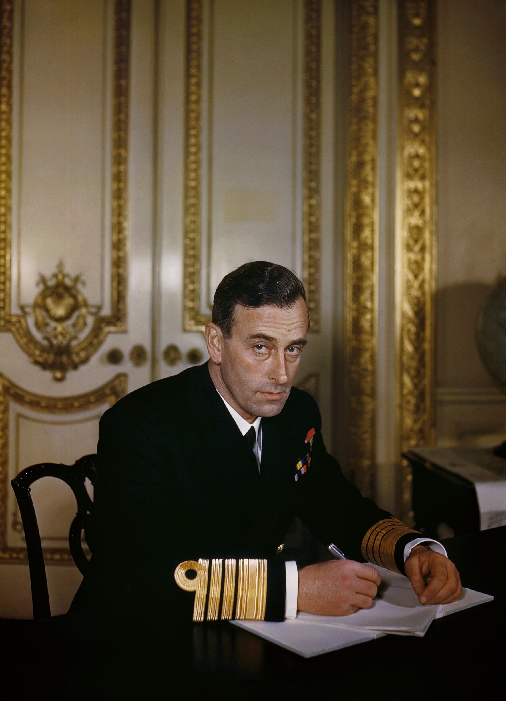 Admiral Lord Louis Mountbatten, 1943. Admiral Lord Louis Mountbatten sitting at his desk (close-up, looking up).